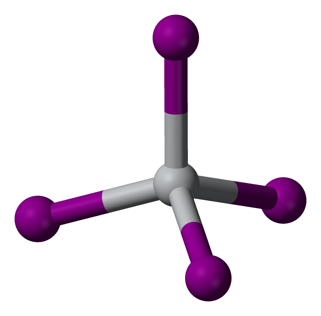 Ball-and-stick model of the titanium tetraiodide molecule, TiI4